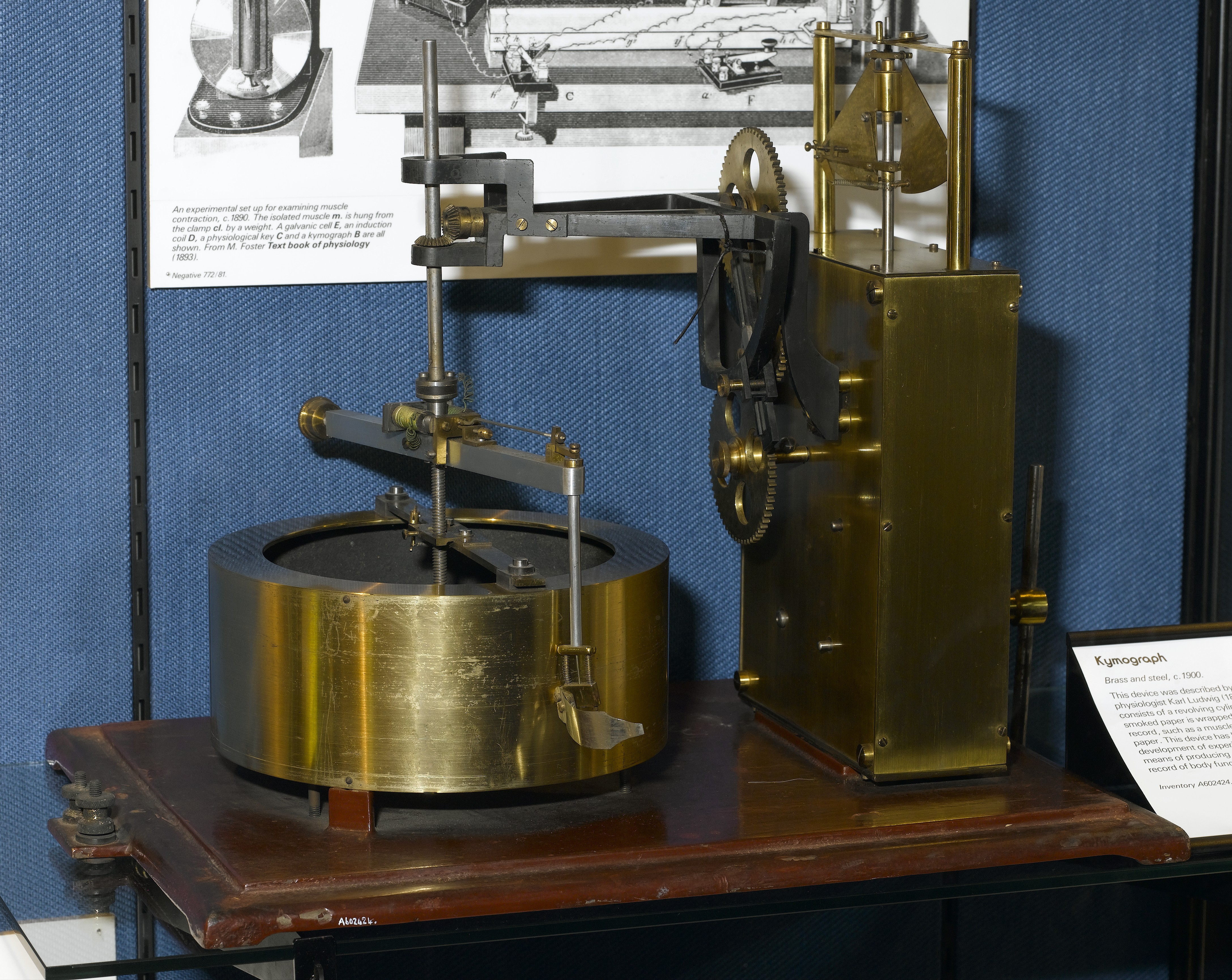 The kymograph is a classic tool of laboratory research invented by the German physiologist Carl Ludwig (1816-1895) in 1847. One of its earliest uses was to measure the blood pressure during physiological experiments. A cannula connected to a U-shaped tube filled with mercury was inserted into the artery of an animal. On top of the mercury was a float attached to a pen. As the blood pulsated, the pen recorded the movement on smoked paper wrapped around the metal drum. The kymograph is said to have transformed experimental physiology as the graphs produced allowed physiologists to see blood pressure on paper, giving them a permanent record of the experiment. The kymograph was later adapted to record muscle contractions and respiration. maker: Unknown maker Place made: Europe Medical Photographic Library Keywords: kymograph; Physiology